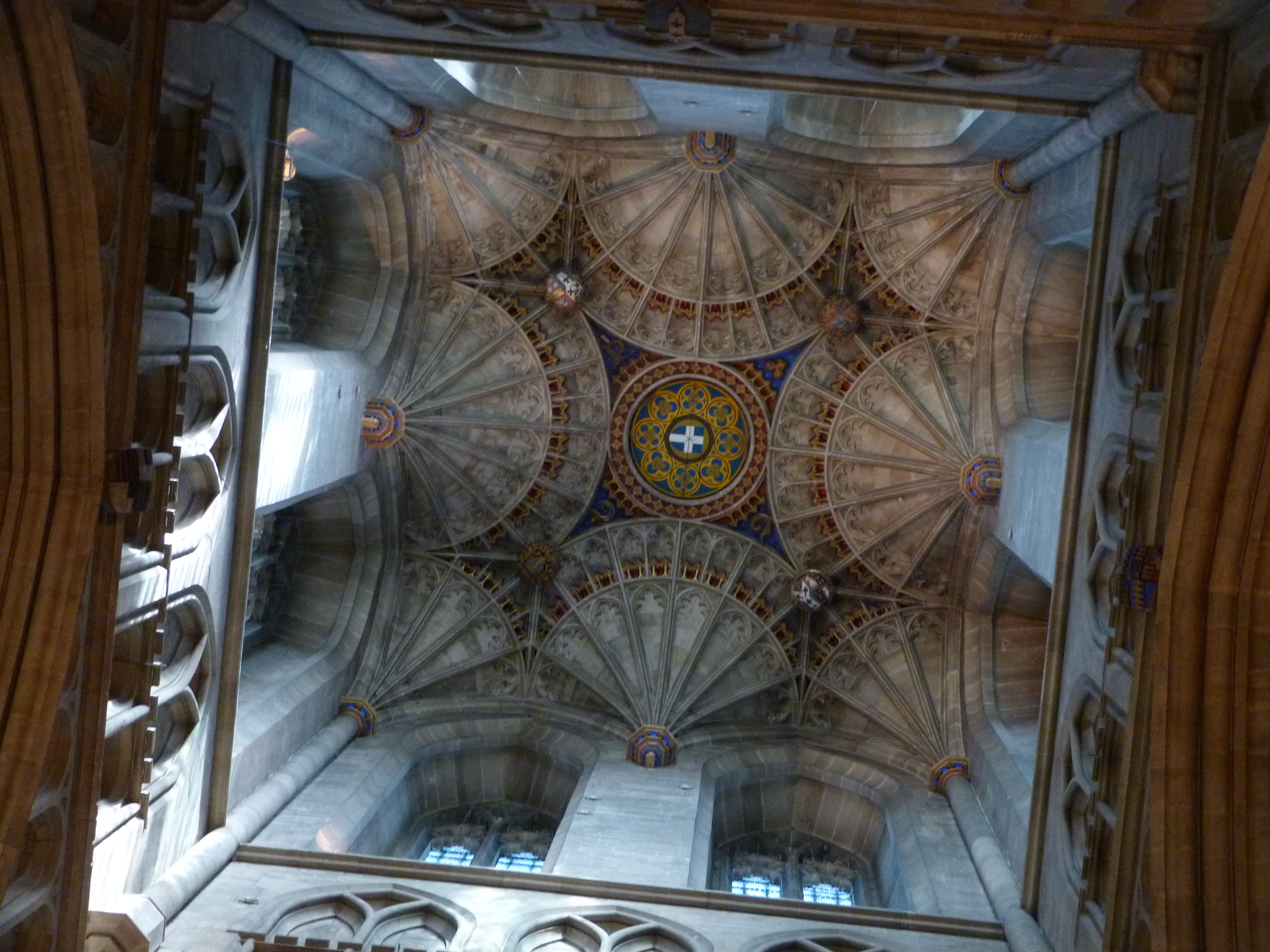 Canterbury Cathedral, fan vaulting of the crossing